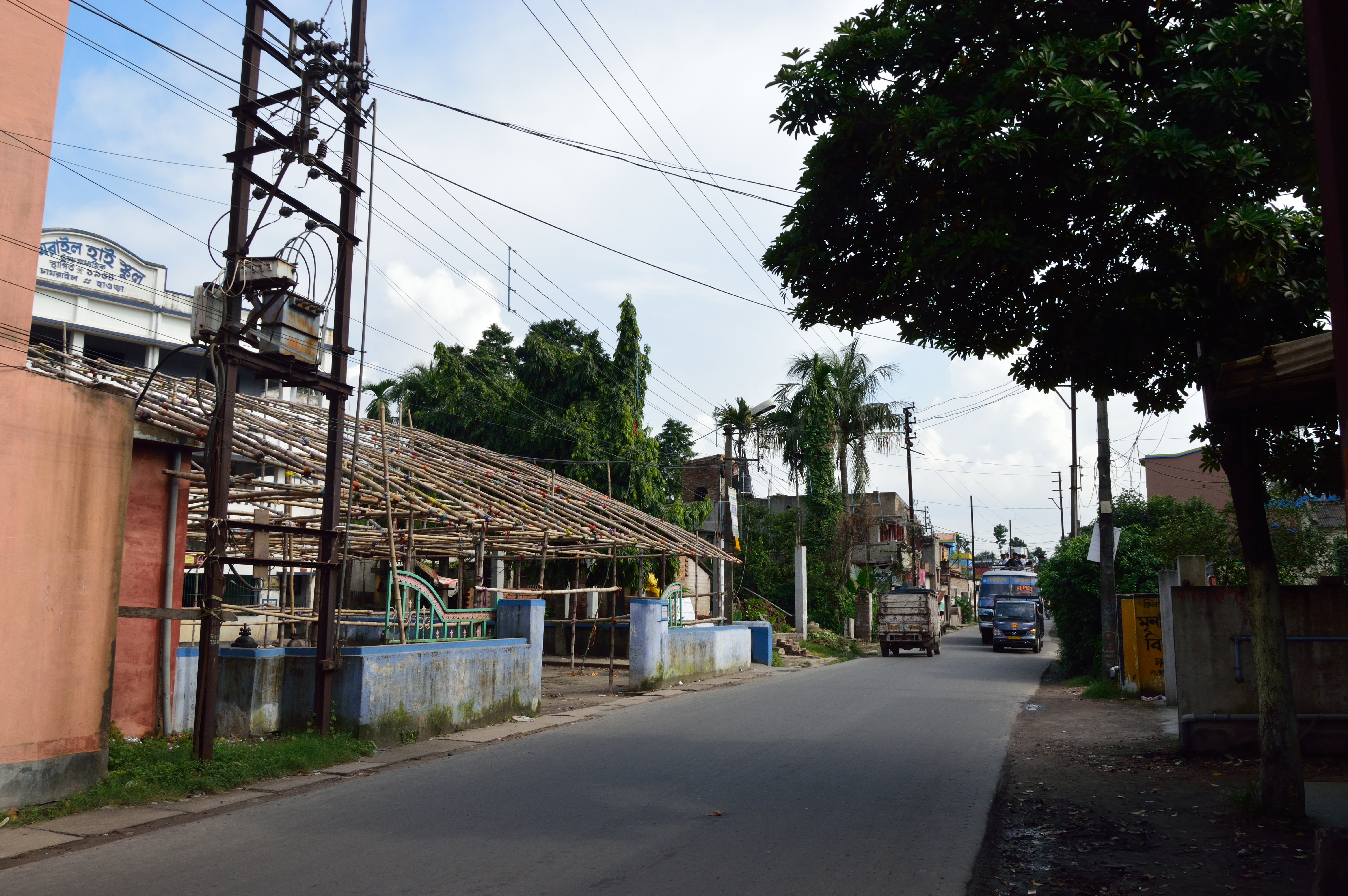 Photographed at Howrah